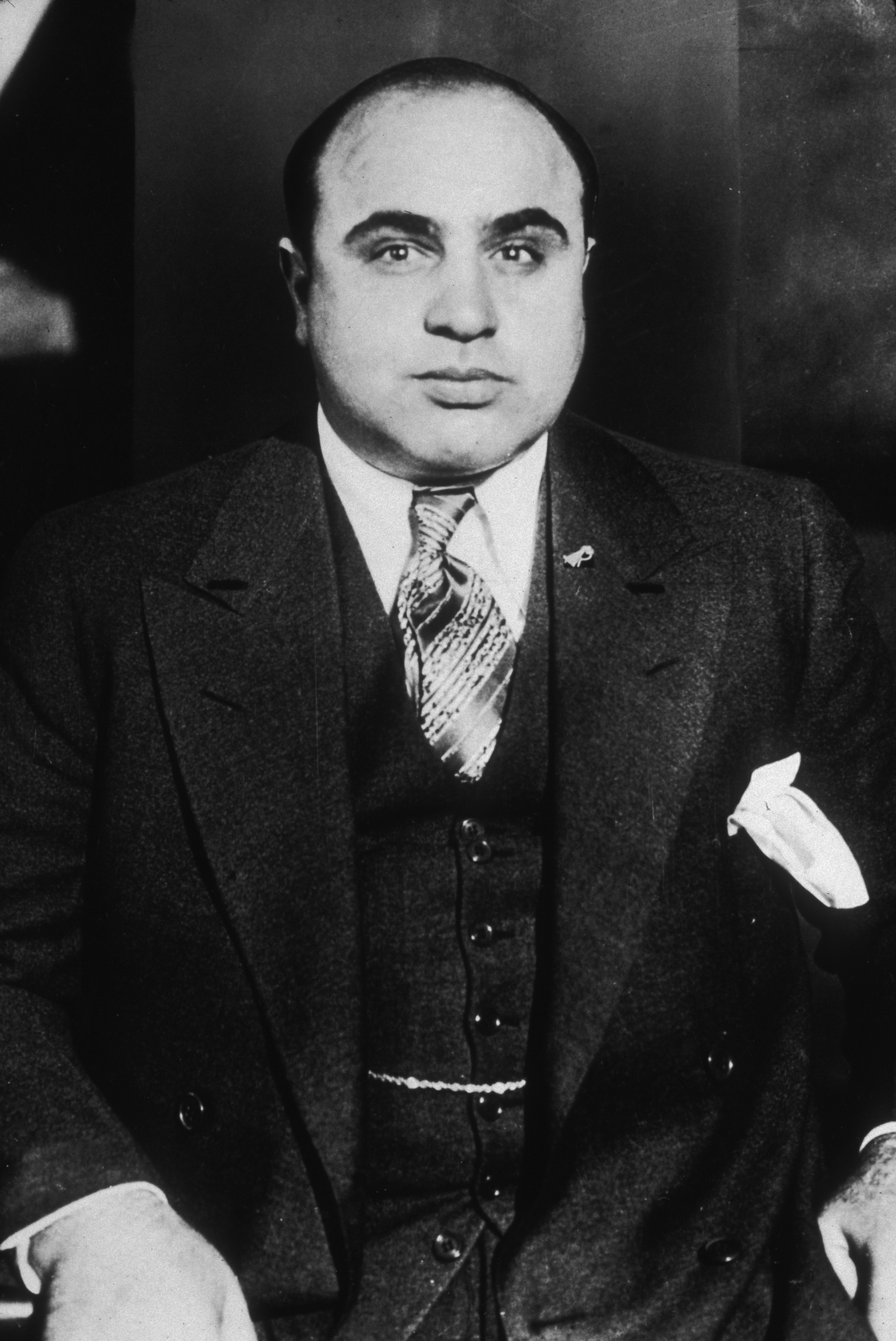 Al Capone sitting.